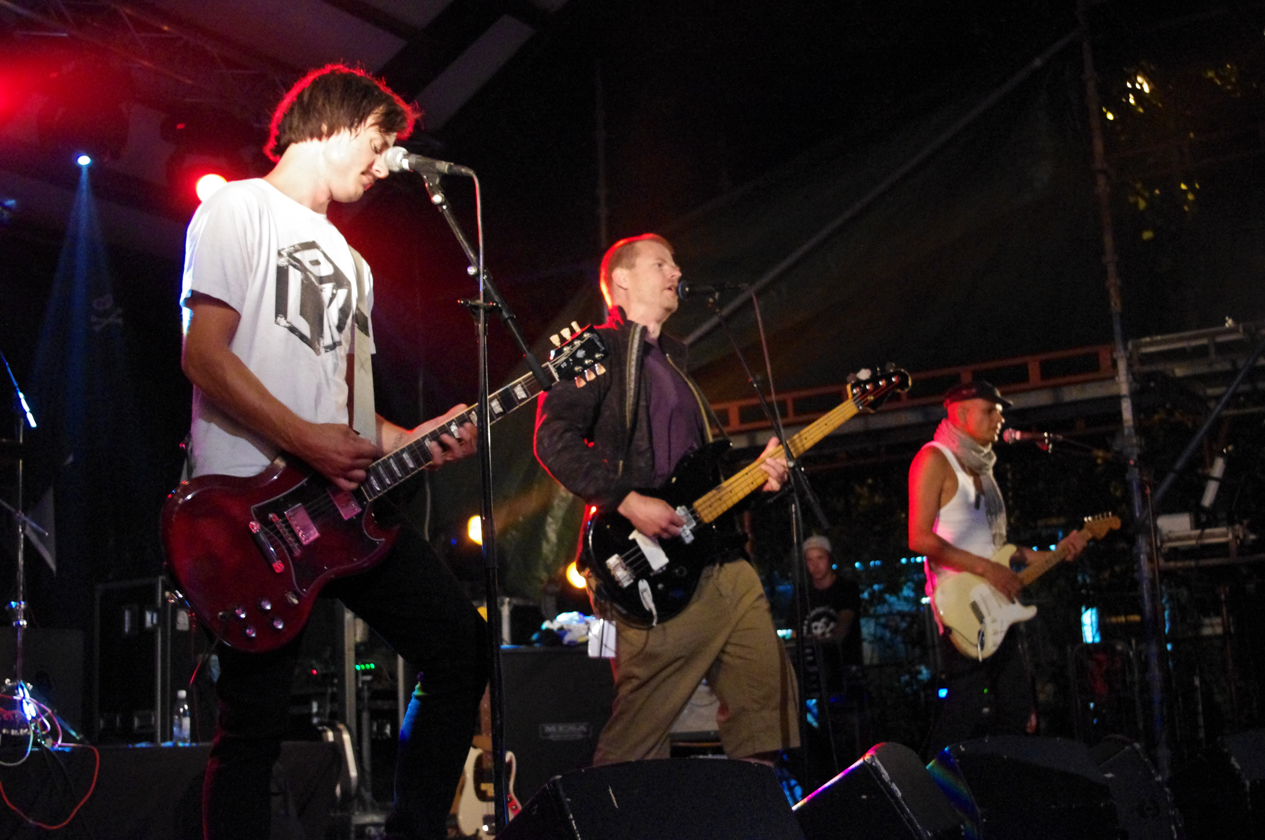 DLK live at Pretzeltown festival 2011.